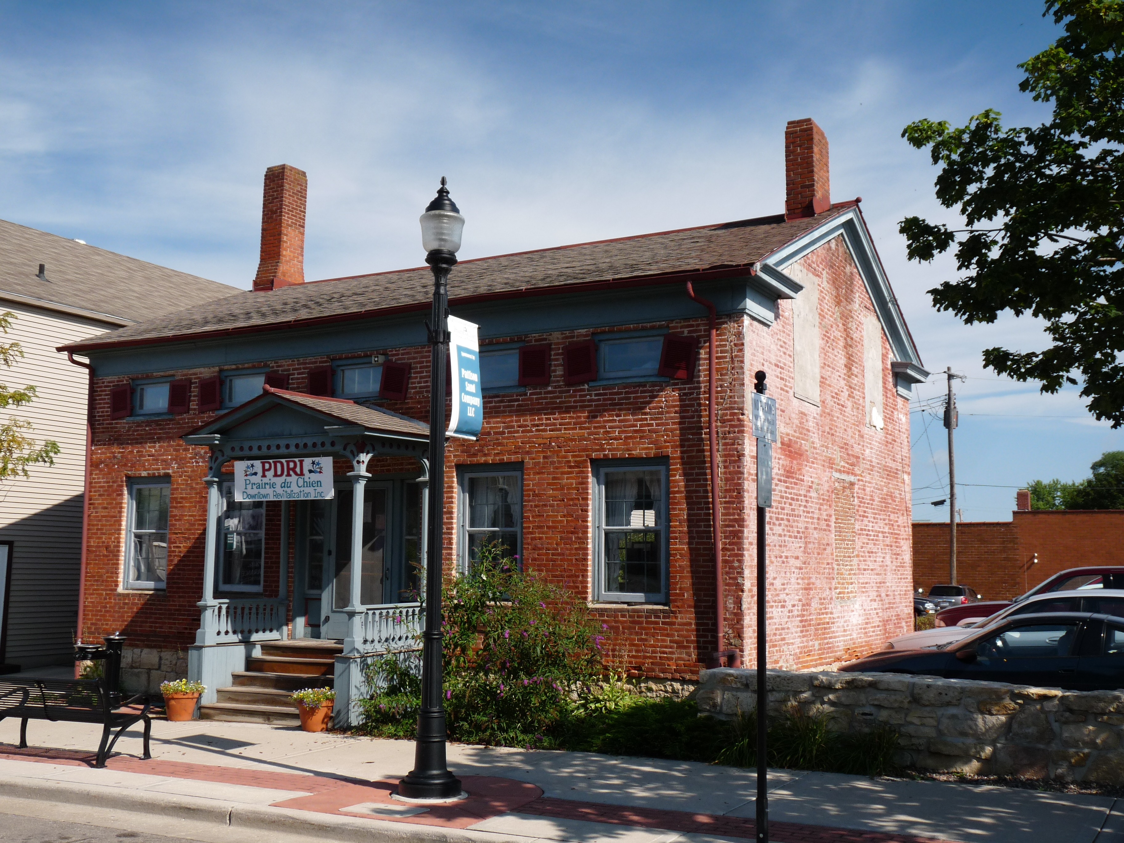 The W.H.C. Folsom House in Prairie du Chien, Wisconsin. It was built as the home of W.H.C. Folsom in 1842, in a simplified Greek Revival style. Today it is listed on the National Register of Historic Places.